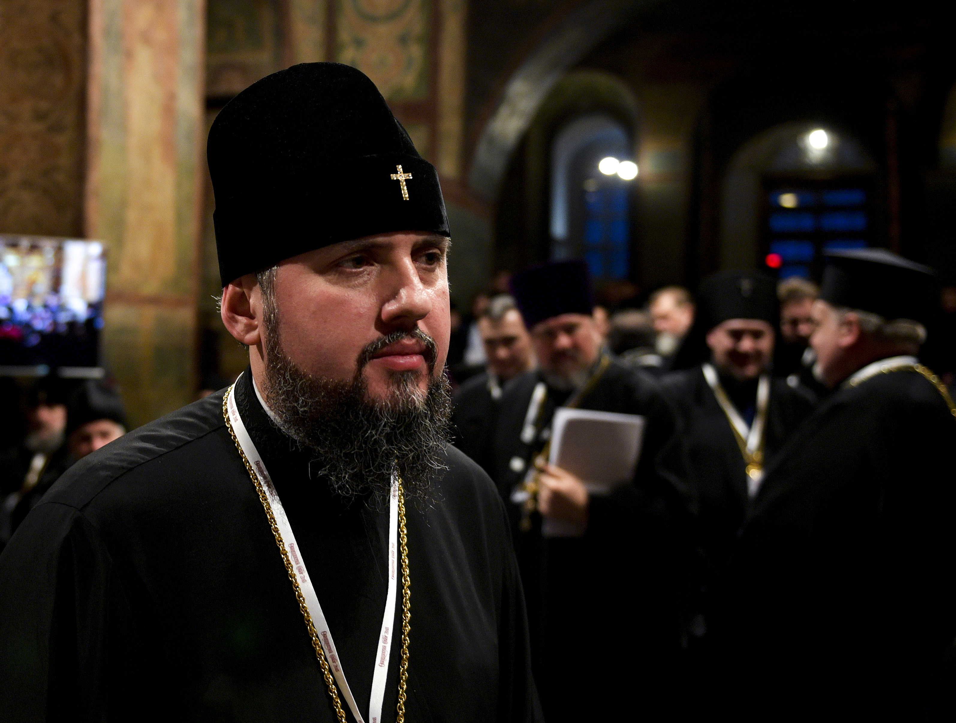 Unification council of Orthodox Church in Ukraine